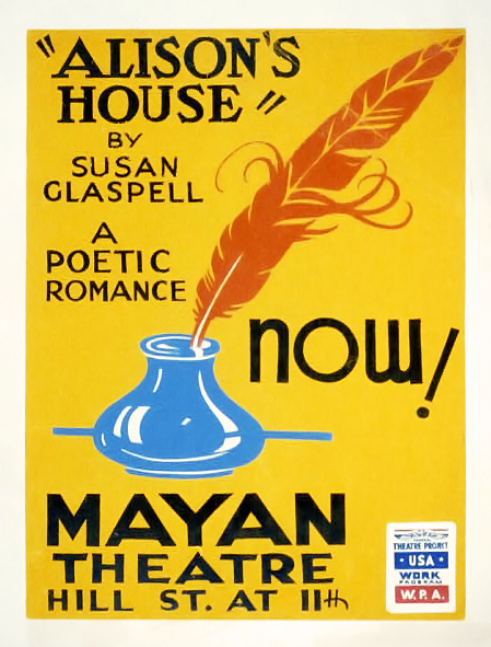 Color silkscreen poster for Federal Theatre Project presentation of "Alison's House" by Susan Glaspell (1876-1948) at the Mayan Theatre, Los Angeles